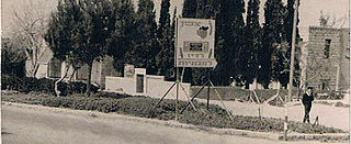 Tel Hanan main street ca. 1965